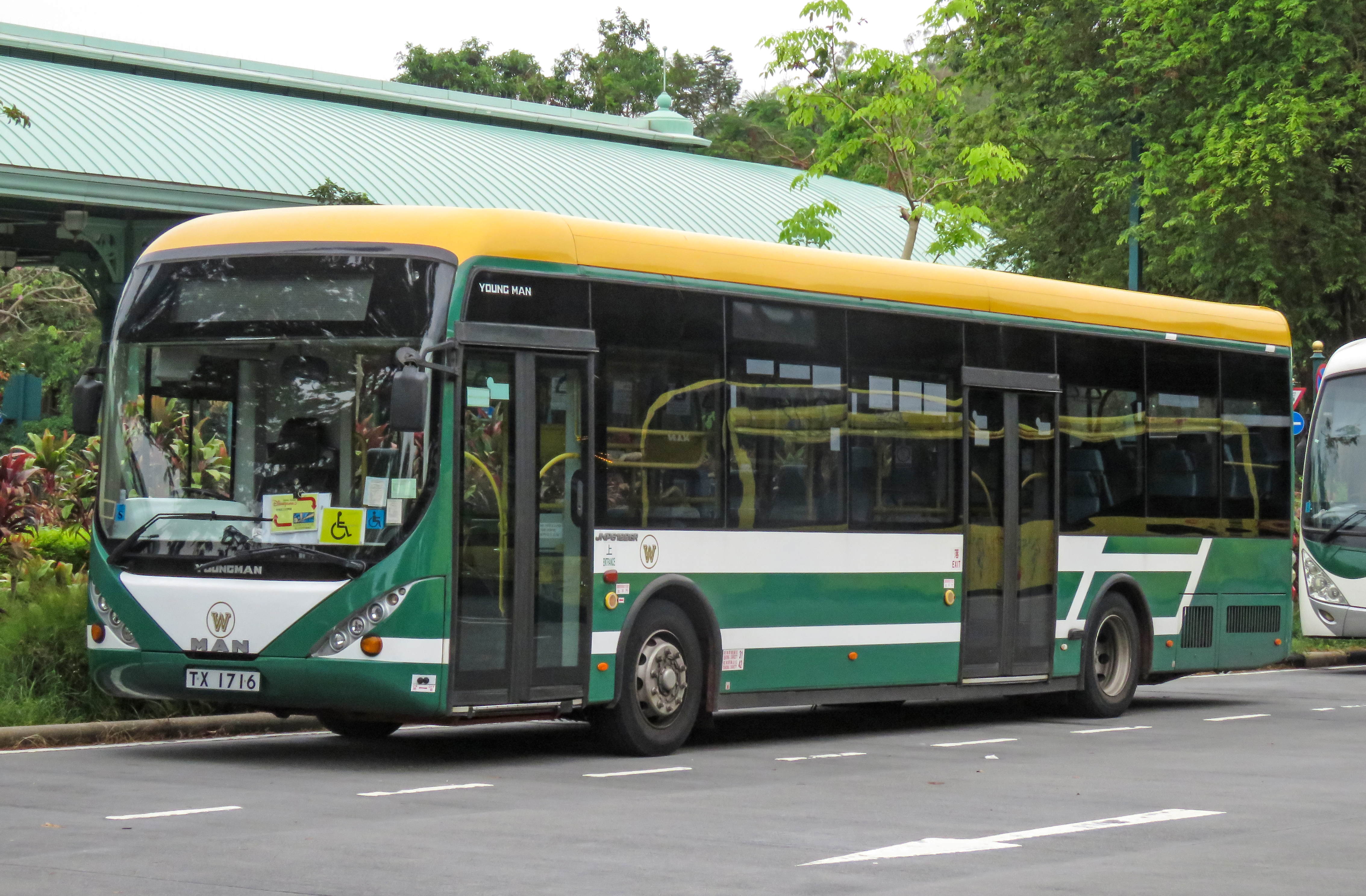 Why is this Youngman here?